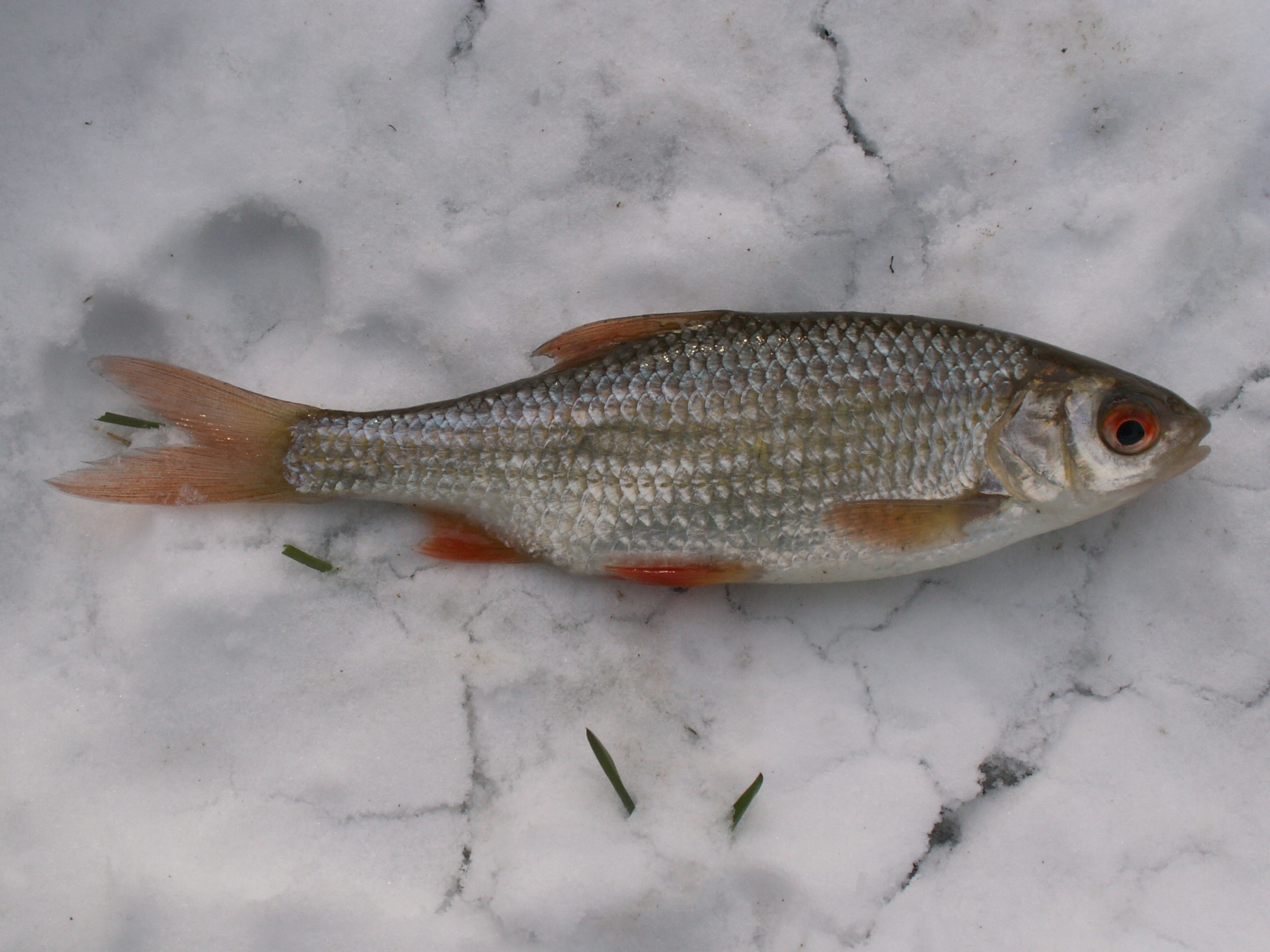 Rutilus rutilus, typical colourful small adult, the Betuwe, the Netherlands